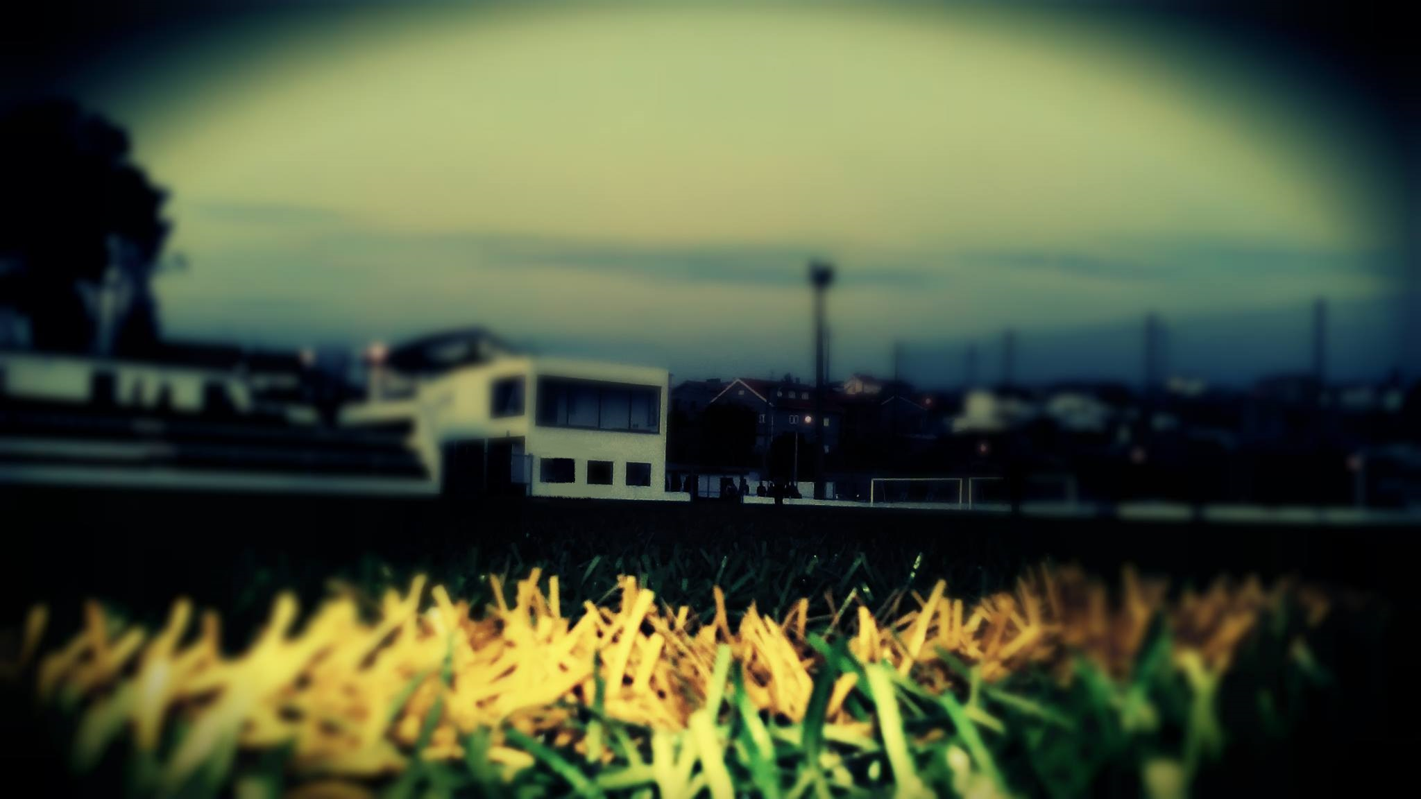 Campo